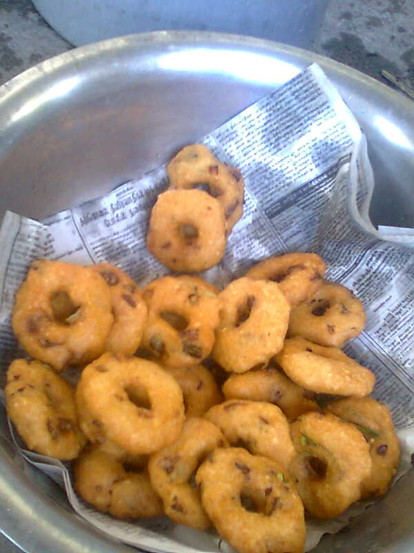 vadai